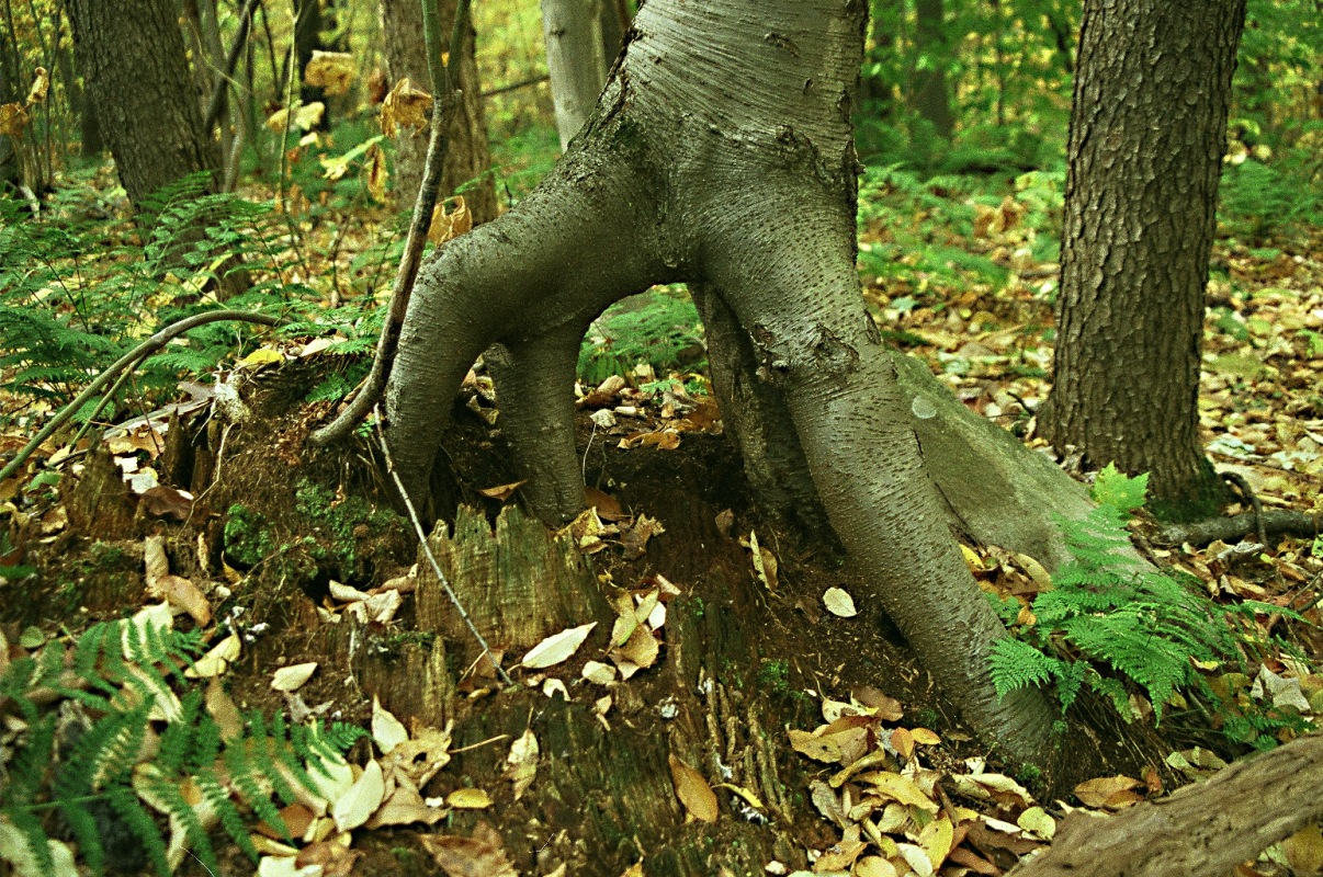 A tree growing out of the rotting stump of a long dead predecessor.